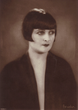 Lya De Putti